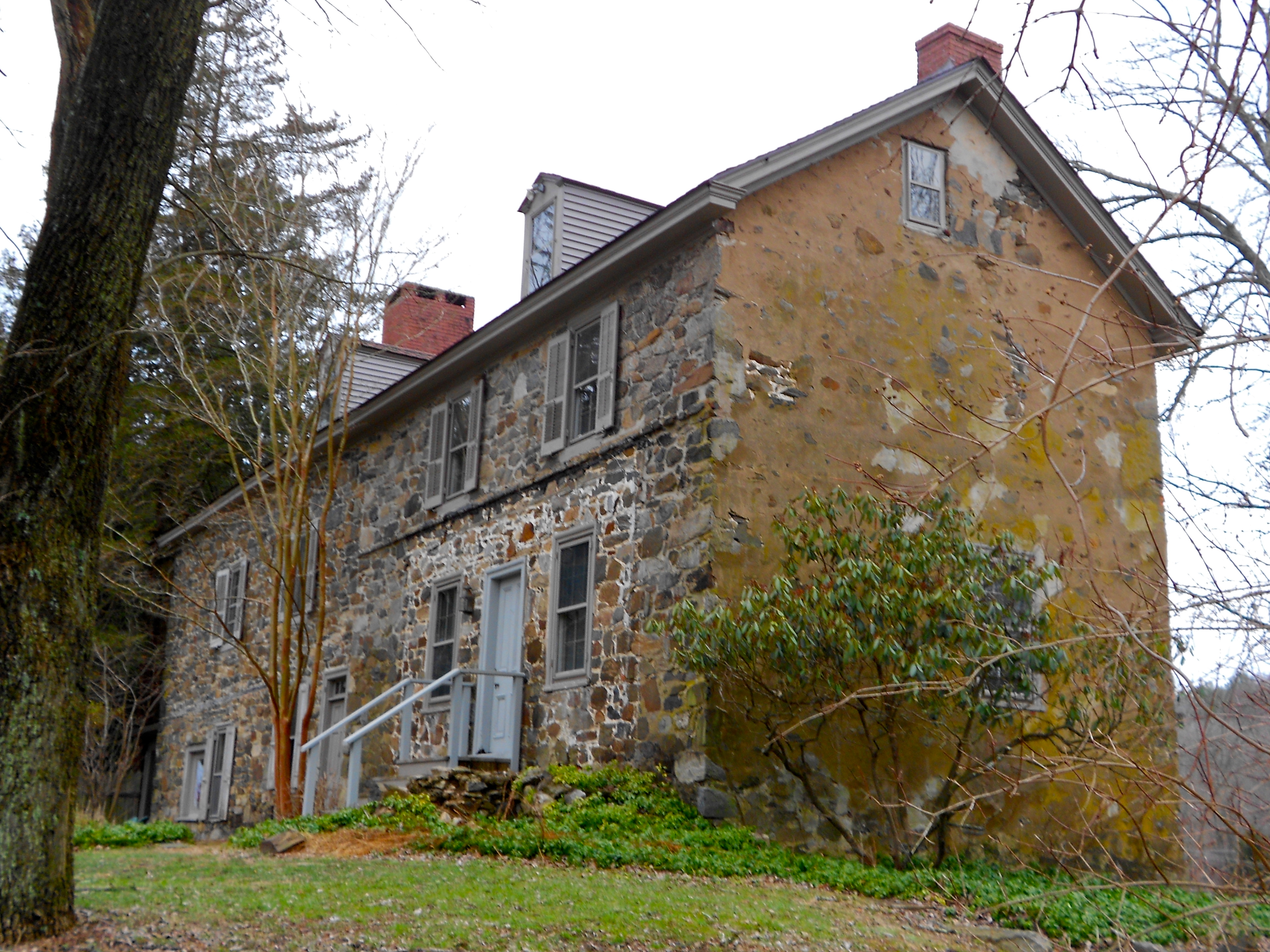 Trimble House, part of the Newlin Mill Complex listed on the National Register of Historic Places